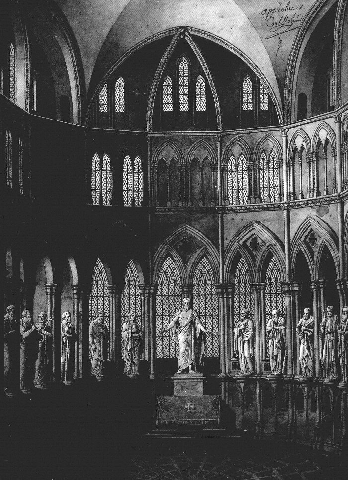 Plan for decoration of the octogon in Nidaros Cathedral, Trondheim, Norway. Drawing by Hans Michelsen, c. 1840. Published in Danbolt 1997.